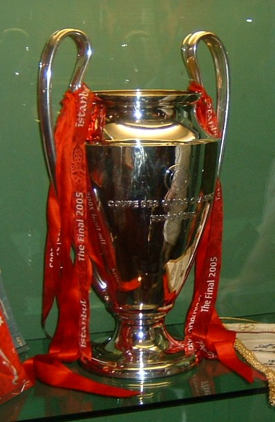 Crop of 2005 Champions League trophy, taken in the Anfield museum on 5 July 2005.